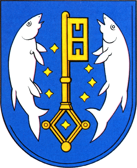 Coat of arms of Köpenick.